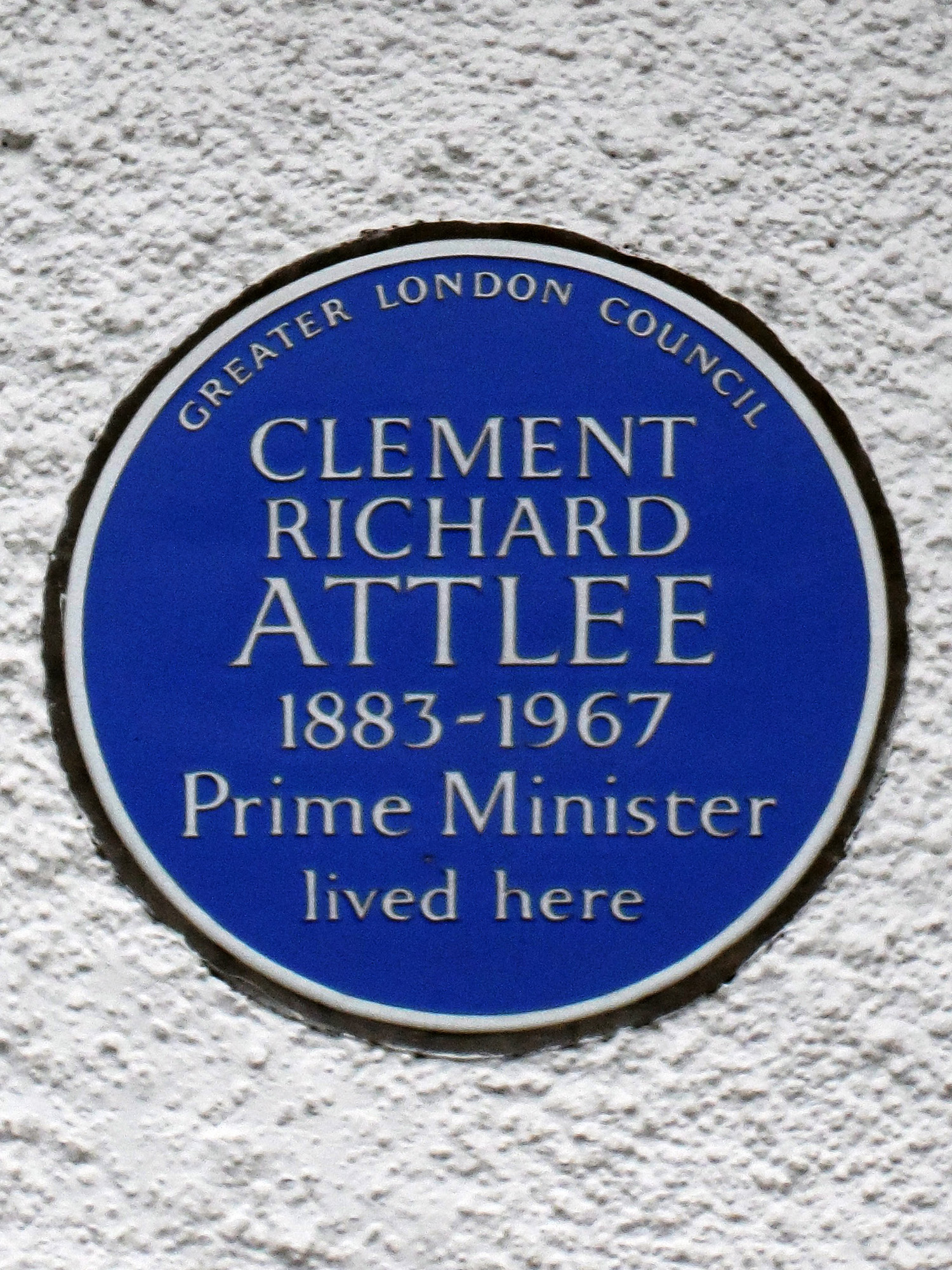 Blue plaque erected in 1984 by Greater London Council at 17 Monkhams Avenue, , Woodford Green IG8 0HB, London Borough of Redbridge